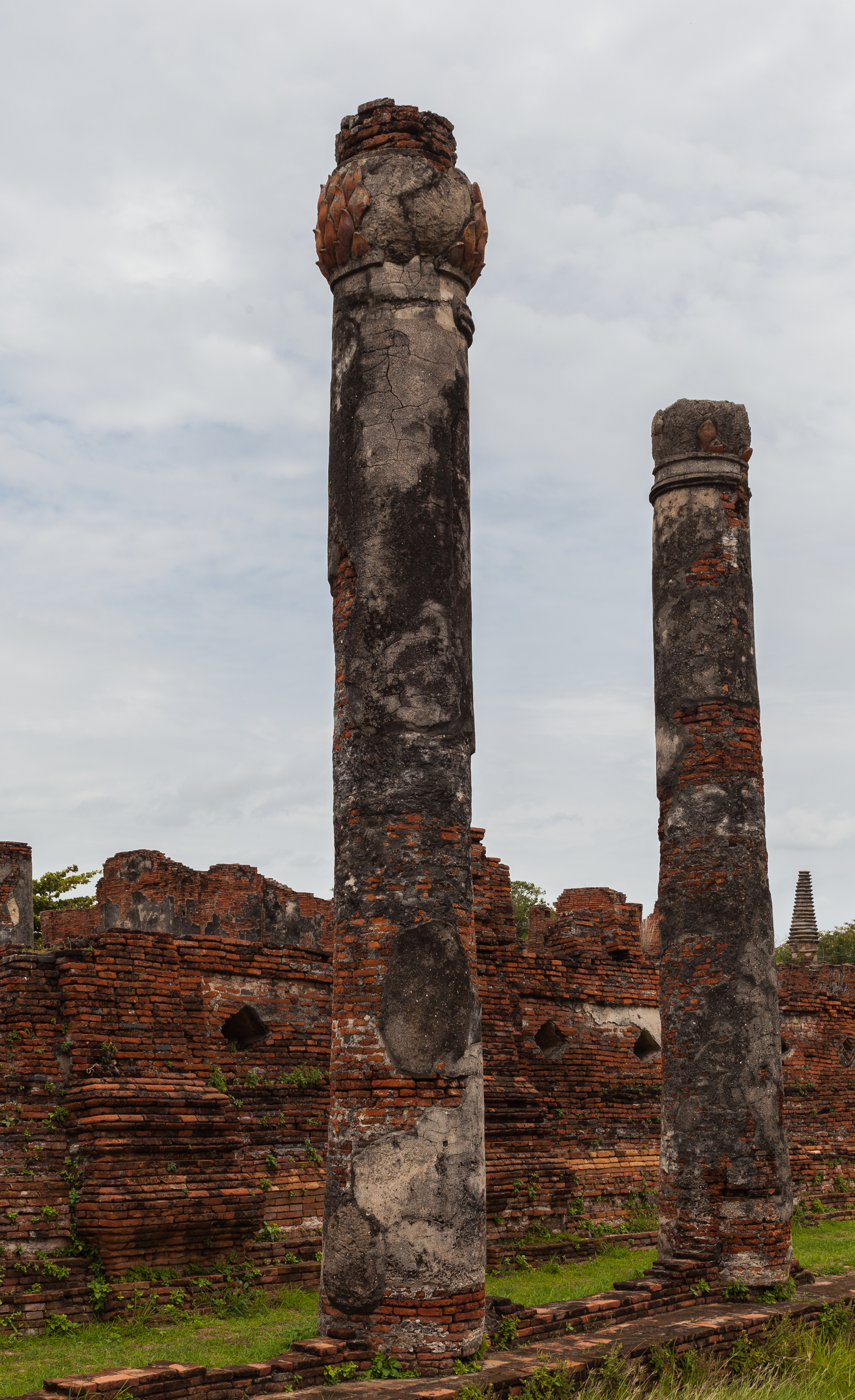 Templo Phra Si Sanphet, Ayutthaya, Tailandia